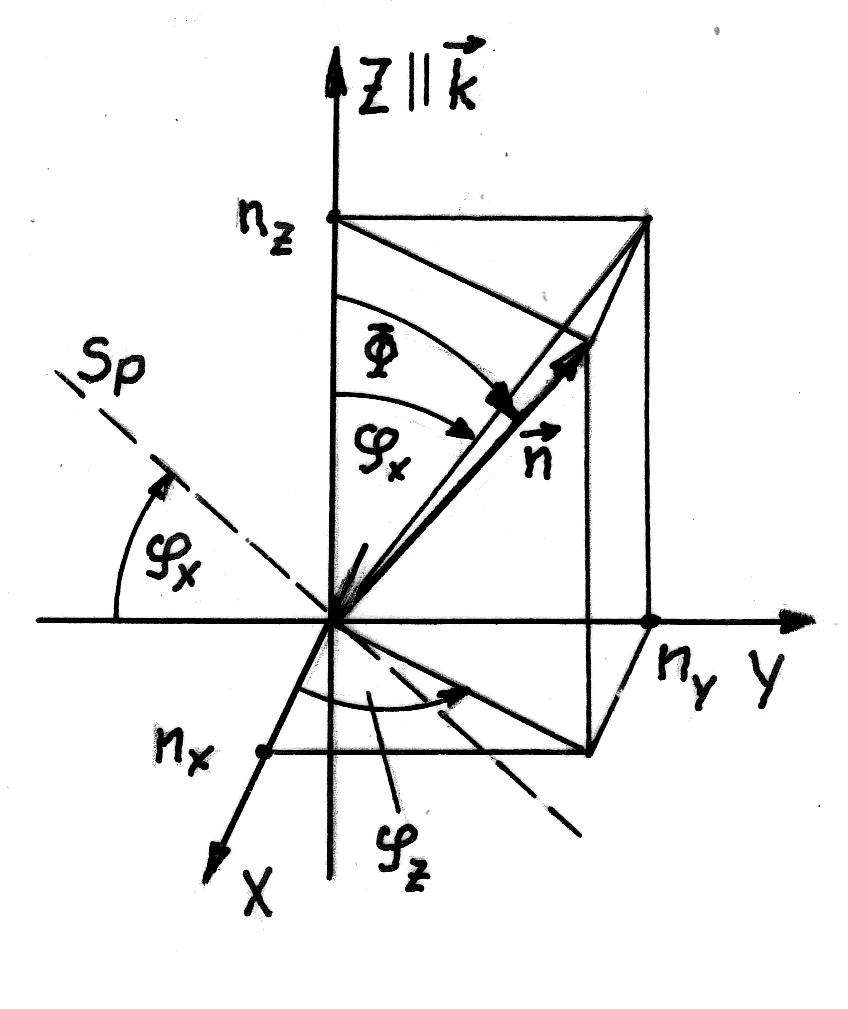 Sketch to the analysis of the azimutal distribution of glide traces